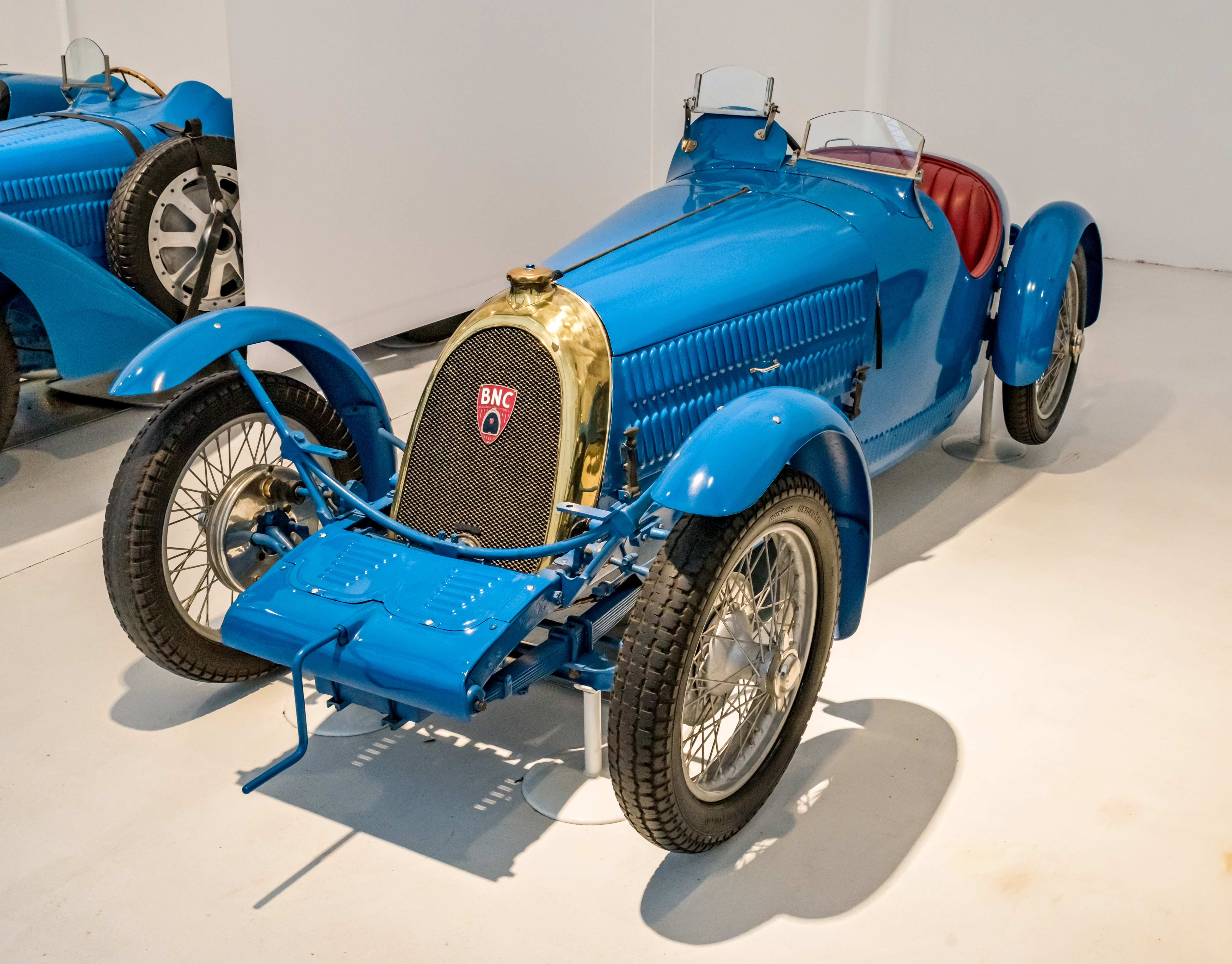 pictures from the Cité de l’Automobile – Musée National – Collection Schlump in Mulhouse, France ptictures from the 10. may 2018